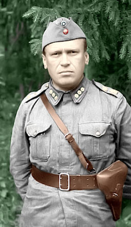 Colonel Antero Svensson